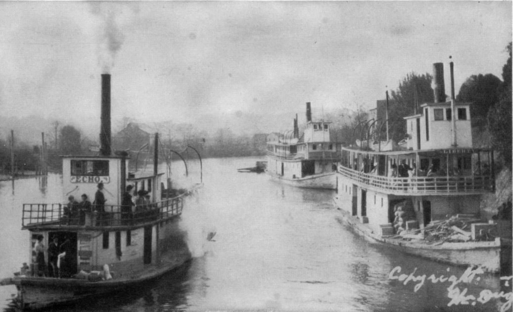 Steamboats Echo, Liberty, and Despatch at Coquille, Oregon. Undated in source, but 1910 appears to be about the date all three vessels were running at same time, per Steamboats of the Oregon Coast. Possibly prepared as a postcard.